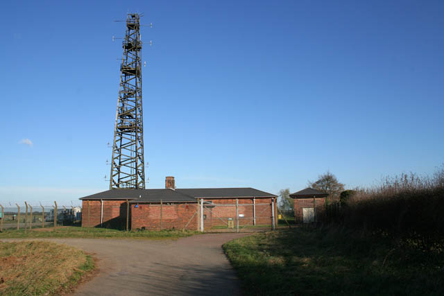 Grantham Radio Station Run by National Air Traffic Services. this radio station is right on the edge of the featured square. The mast is made of wood.